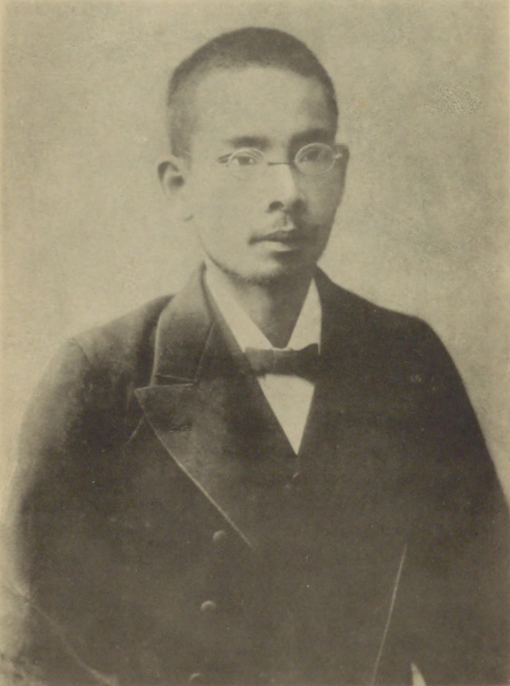 Portrait of Jahana Noboru (謝花昇, 1865 – 1908)